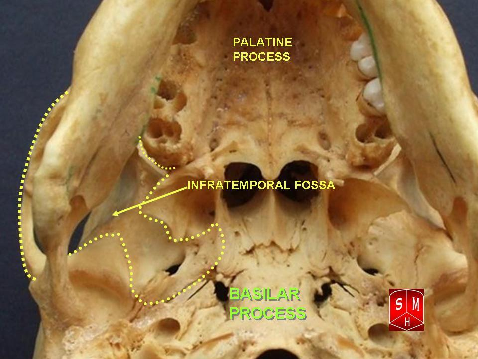 Basilar process and palatine process